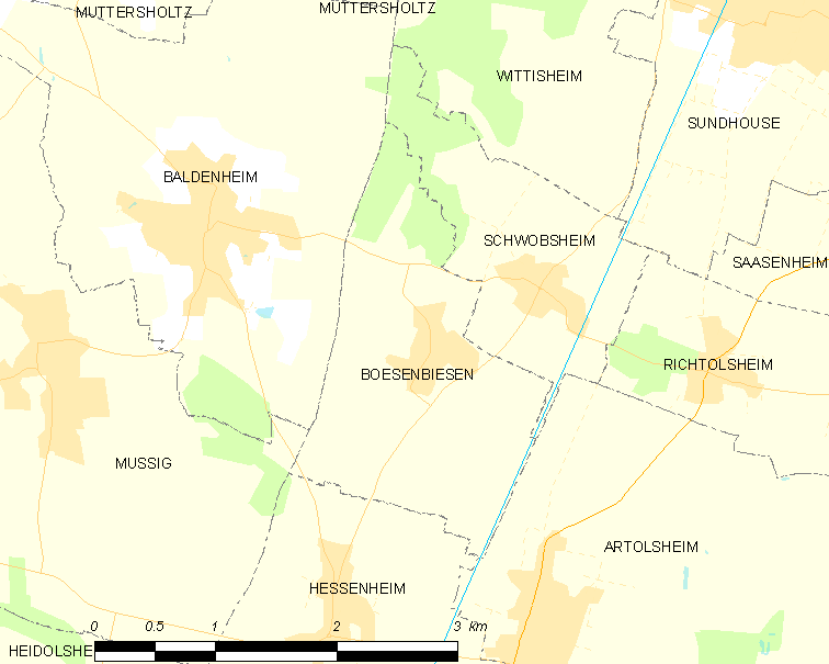 Map of French municipality